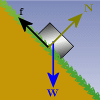 A freebody diagram of a block resting on an oblique surface, showing the weight (gravity), normal reaction and friction. Made by myself. Warning: the application point of the forces f and N is not correct, even is the body is sliding; the resulting moment is far higher than what is excpeted.